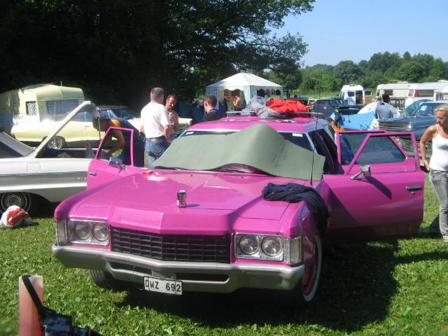 1971 Chevrolet Townsman.